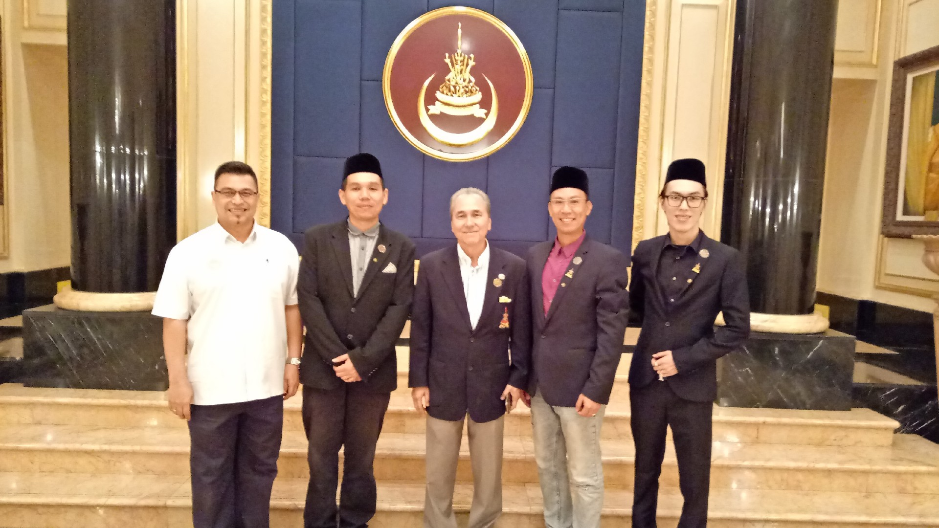 Y.A.D Tengku Dato' Setia Putra Alhaj & his business partner Left: Munasor(PIC For Gallery Diraja SAAS)， Mic Mok, Y.A.D Tengku Dato' Setia Putra Alhaj, Benny Wong(Personal Assistant & business partner) and Baba Jace(Private Secretary & Business Partner to Tengku Putra